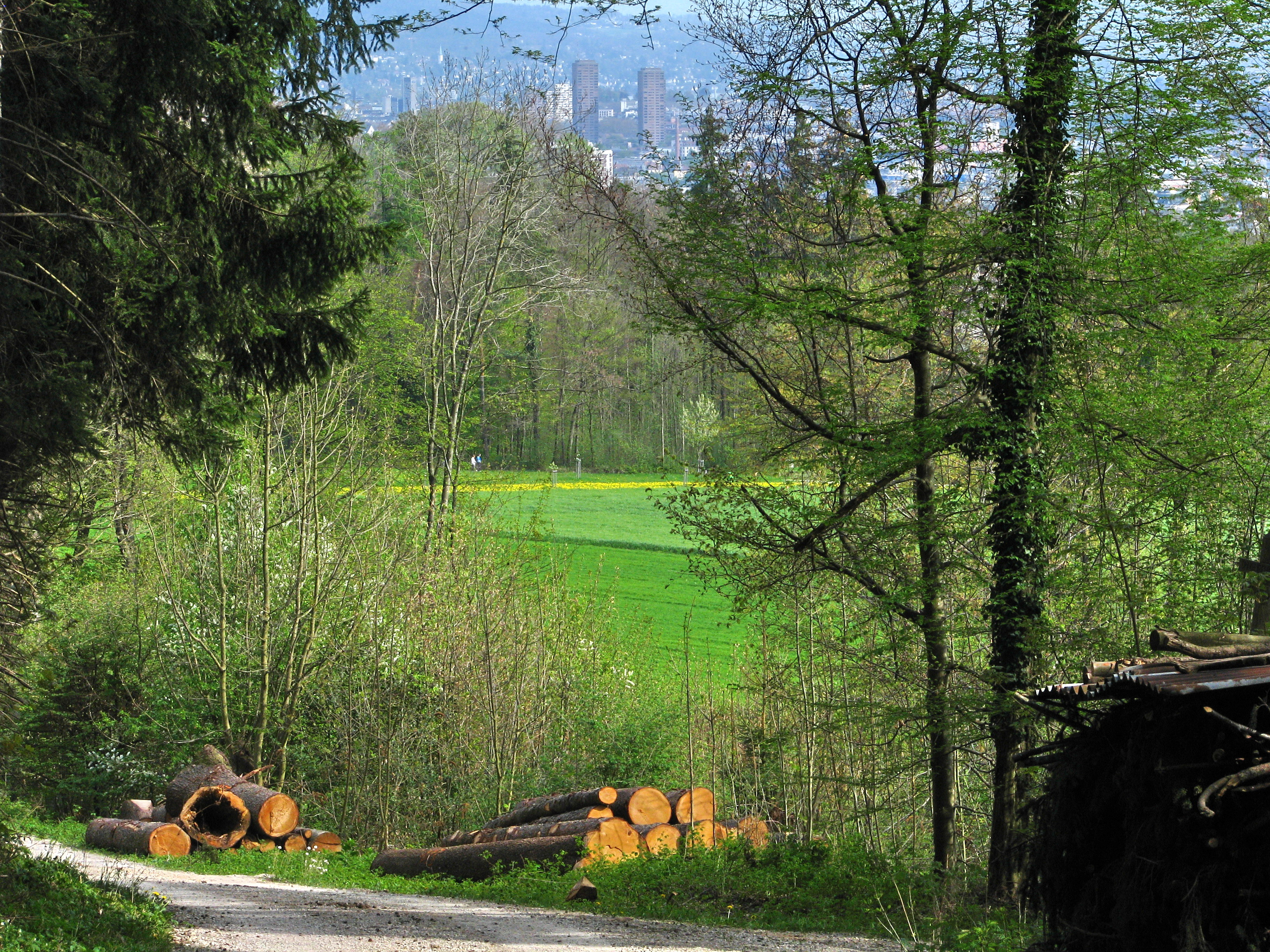 Limmattal respectively Zürich as seen from Unterengstringen towards Glaubeneich